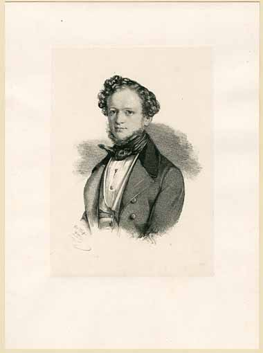 The german painter Peter Herwegen (1814-1893)